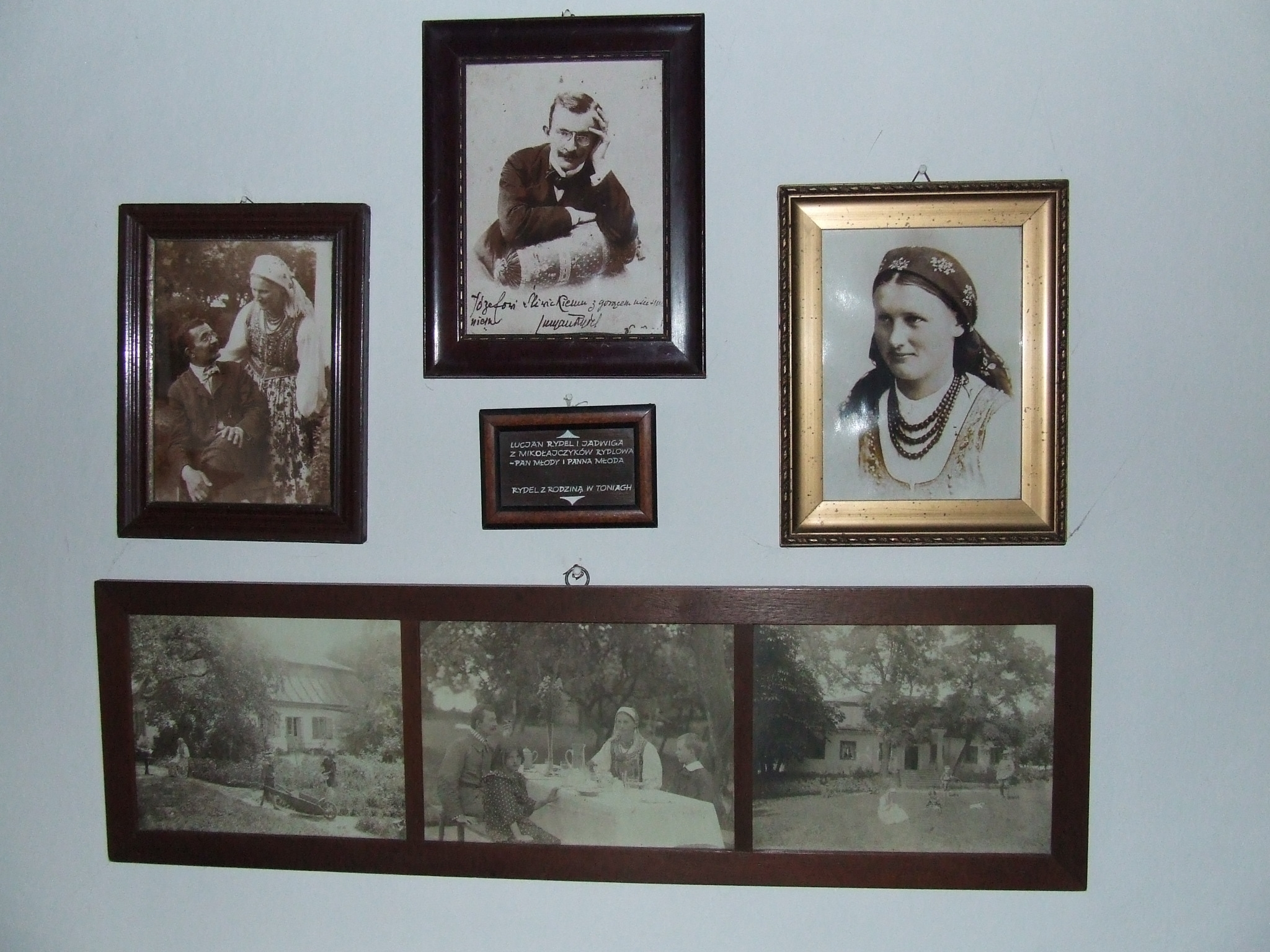 Lucjan Rydel house